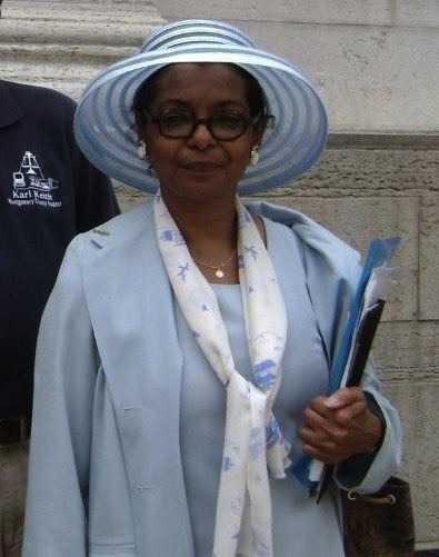 Former Dayton, Ohio mayor Rhine McLin.